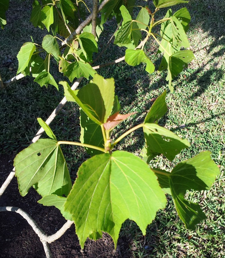 Dombeya acutangula - Mauritius